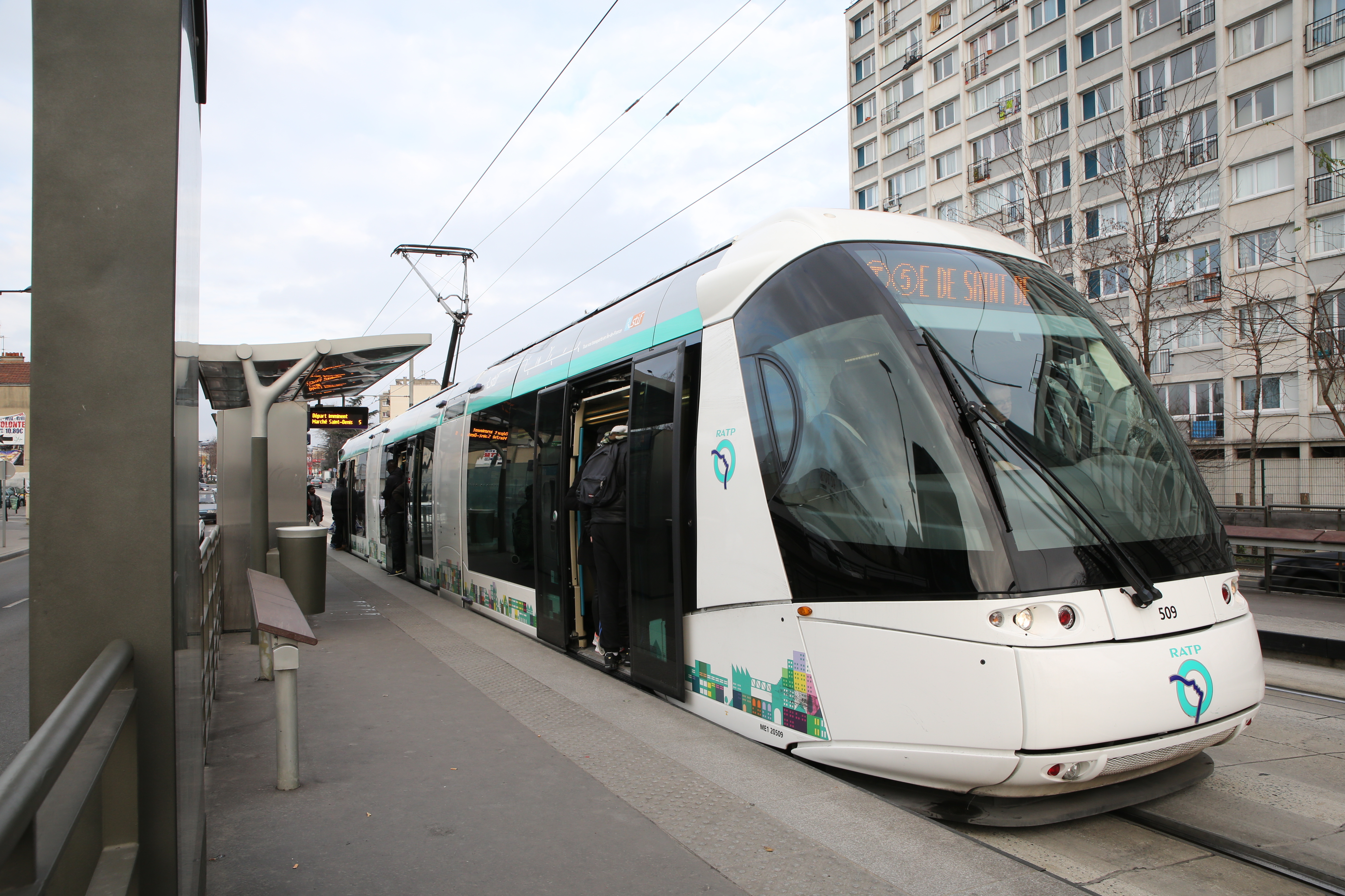 Station Joncherolles, Pierrefitte